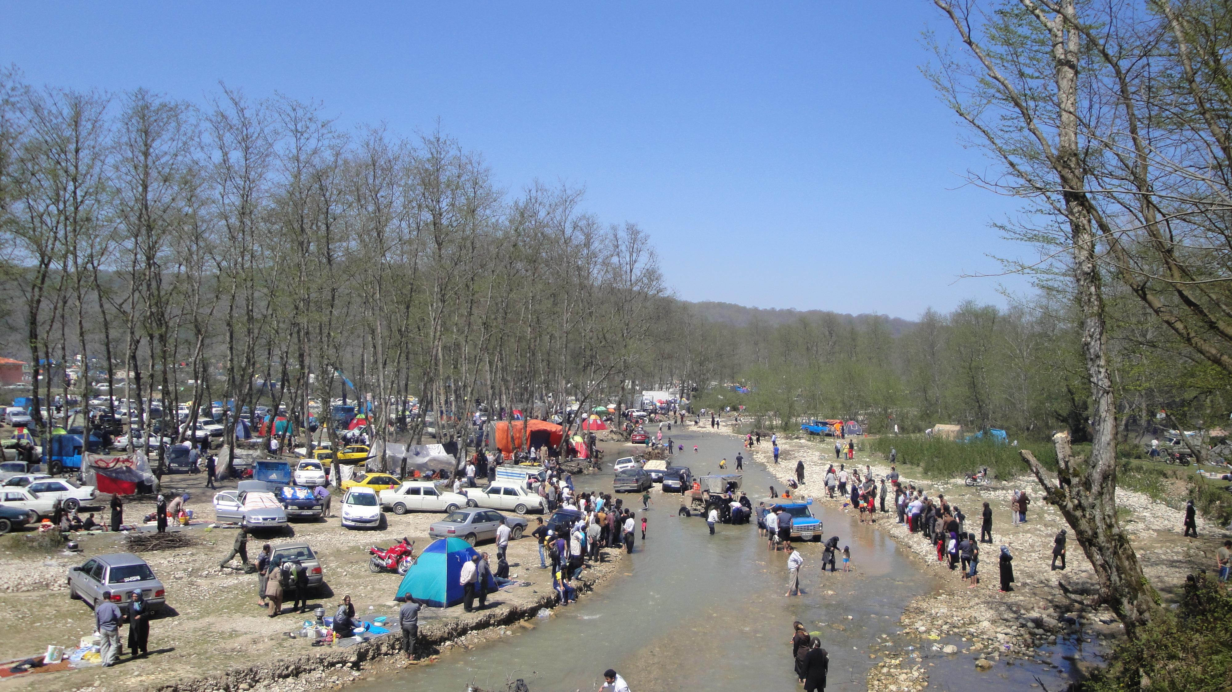 Sizdah Be-dar in the Baliran Jungle